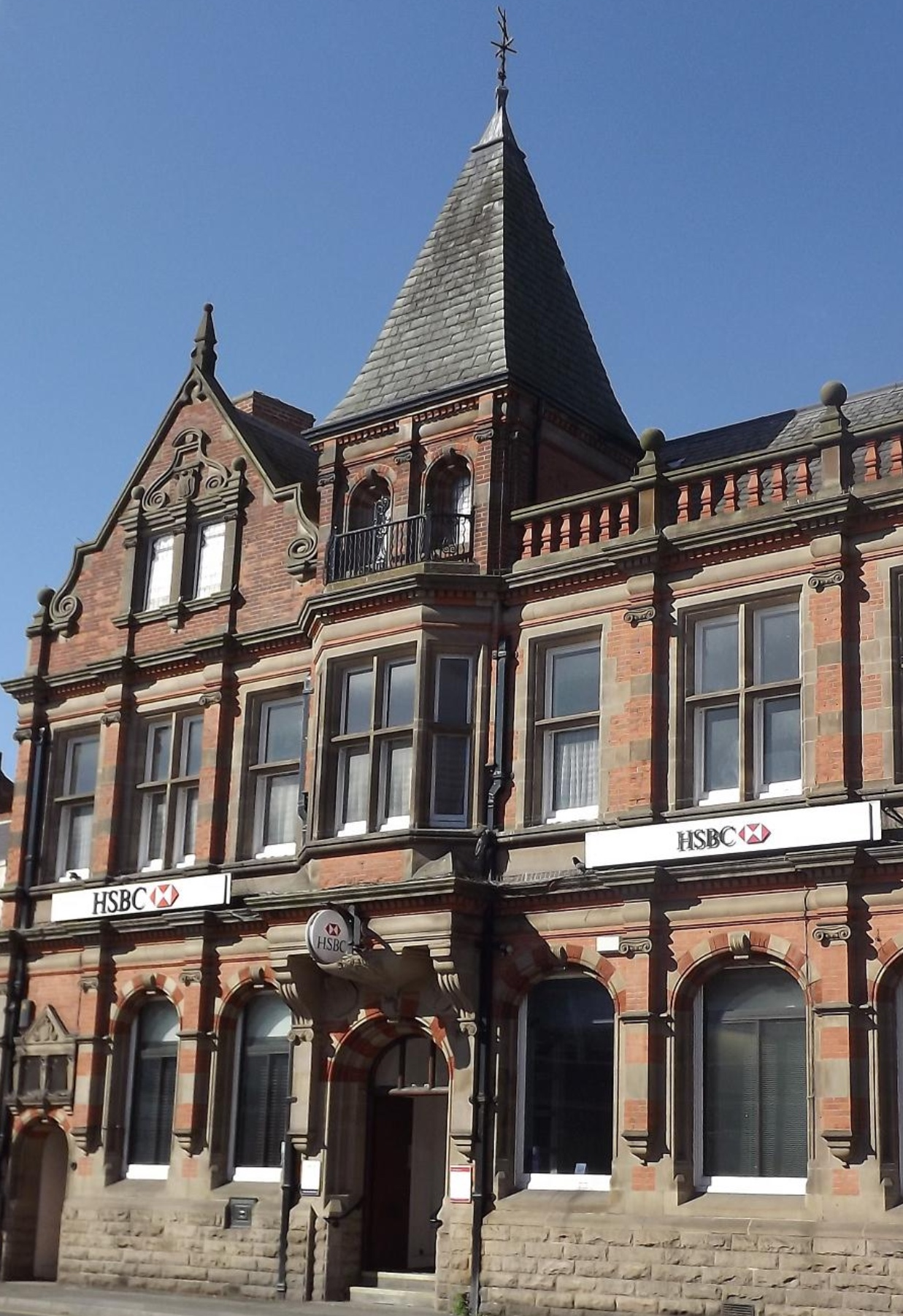 Former Nottingham Joint Stock Bank building, Market Place, Long Eaton.